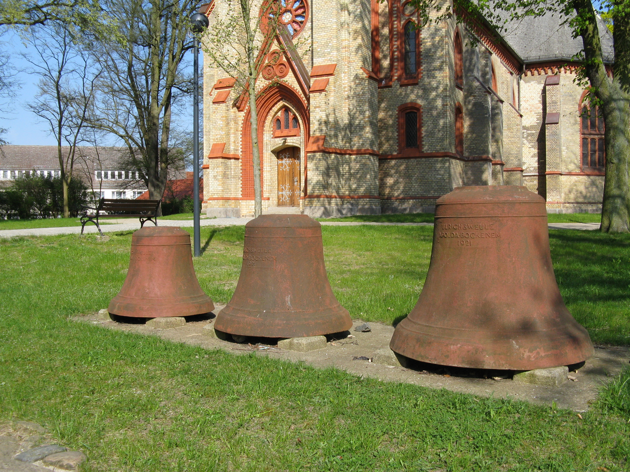 Church bells in front of the church in Warin, disctrict Nordwestmecklenburg, Mecklenburg-Vorpommern, Germany